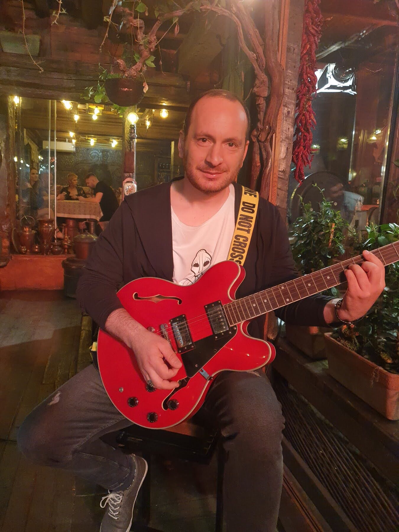 Shkëlzen Ademi